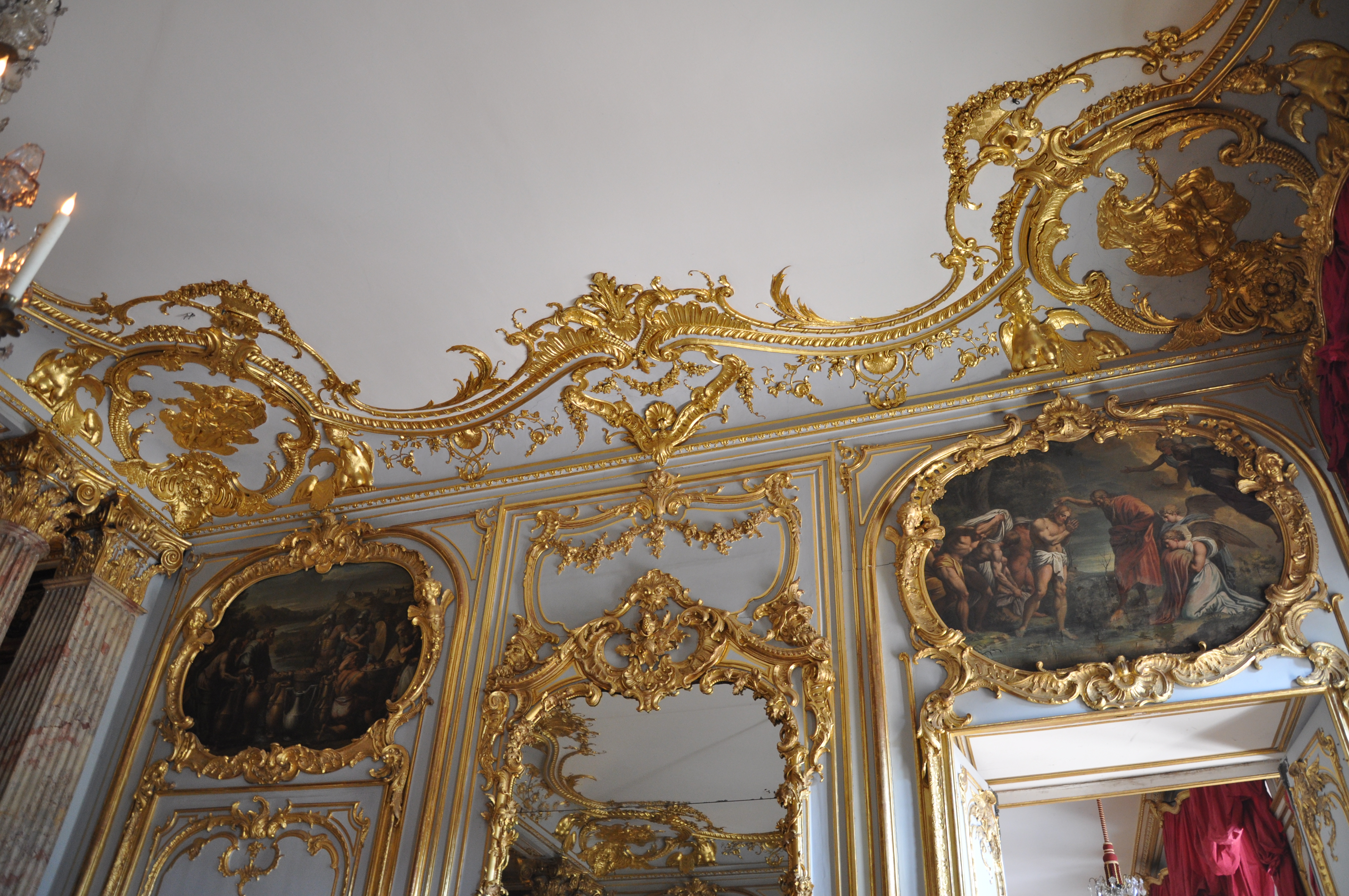 "Rocaille" ornaments in Palais Rohan (Strasbourg, France)